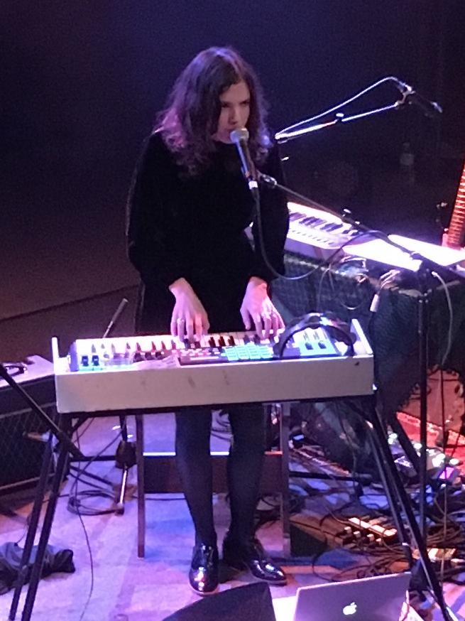 American pop singer-songwriter Tristen performing in Cambridge, Mass.